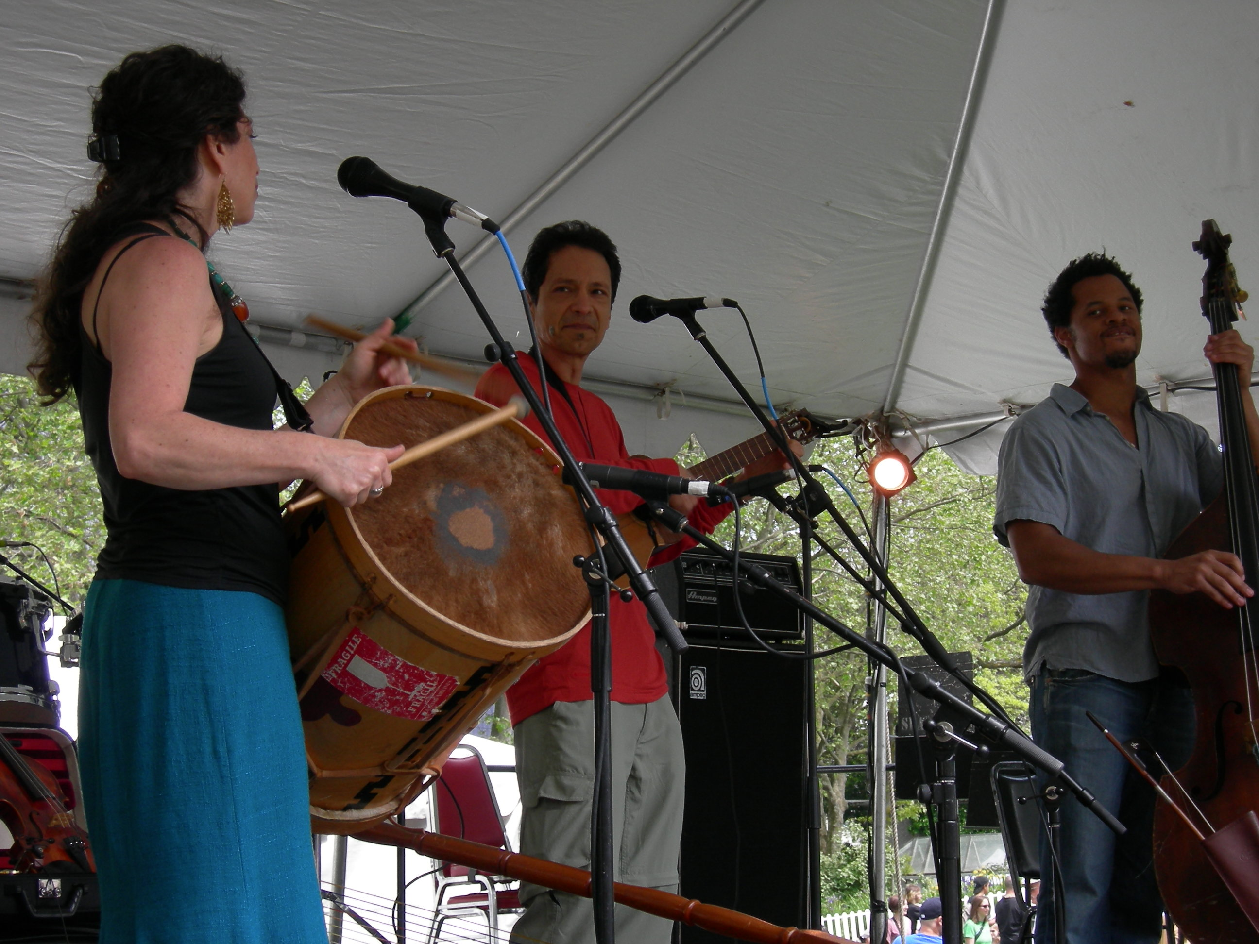 The band Correo Aéreo perform traditional music of Venezuela, Mexico, Argentina and Peru at Northwest Folklife Festival, Seattle Center.